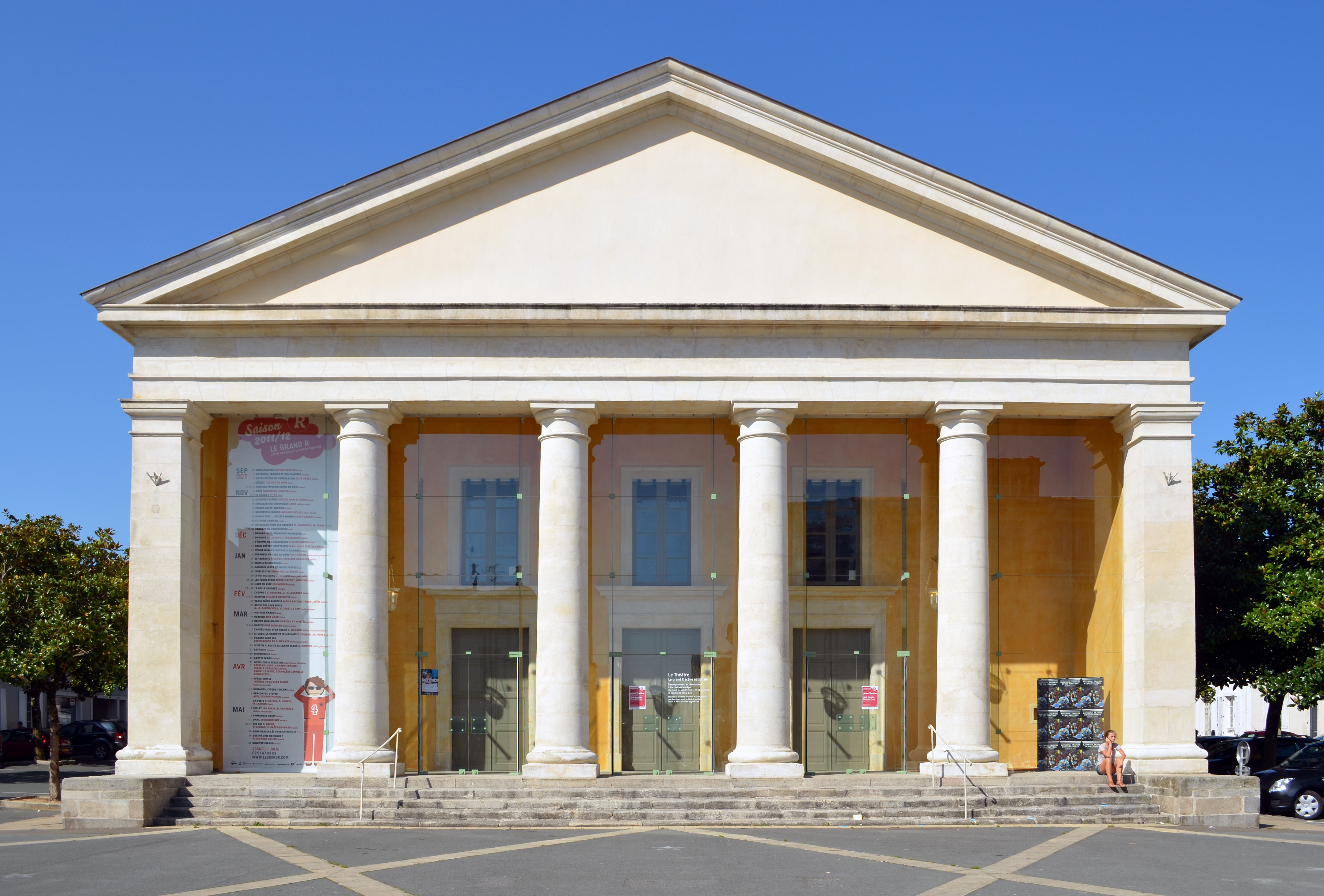 La Roche-sur-Yon theatre (1844) .